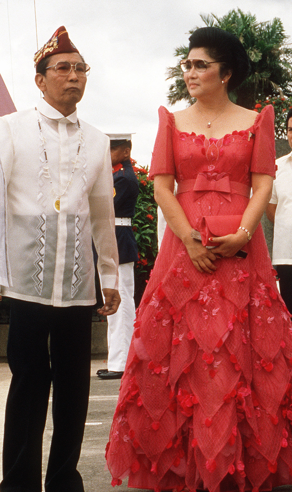 President Ferdinand Marcos and his wife Imelda during the 1984 reenactment of General Douglas MacArthur's 1944 landing at Red Beach in Leyte. VIRIN: DF-ST-85-06923